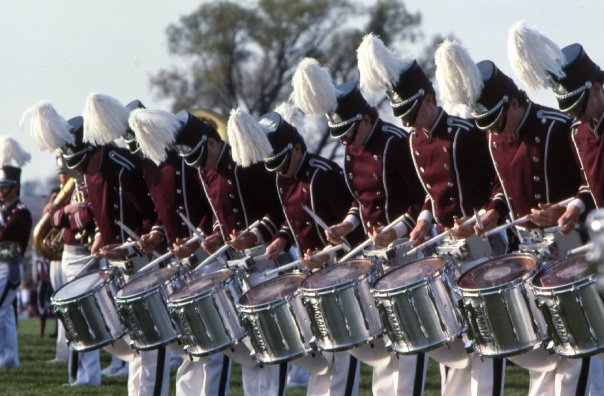 IUP Marching Band Drumline